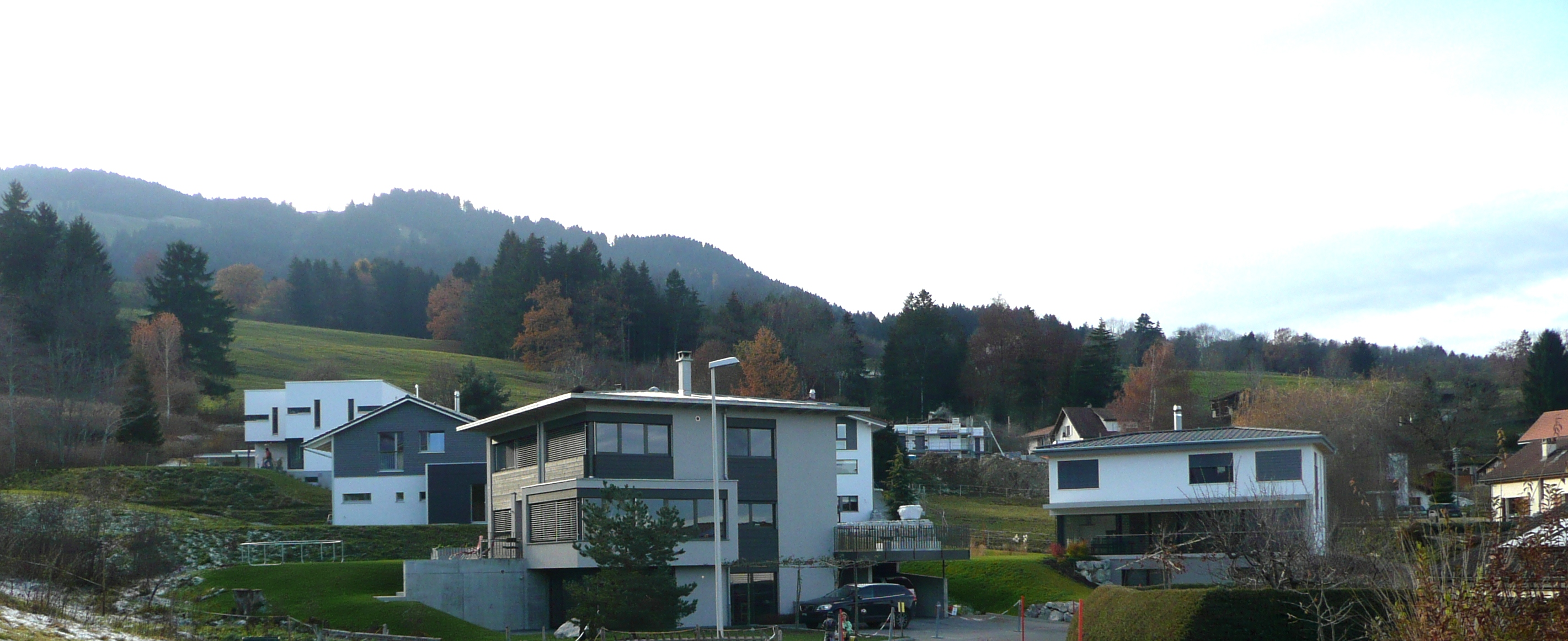 New district in Le Pâquier-Montbarry, near Bulle, Gruyère, Switzerland